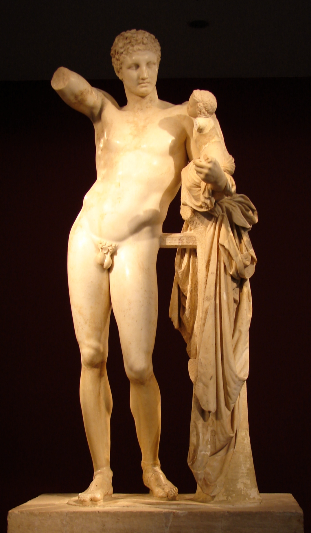 Hermes bearing the good person by Praxiteles. Parian marble, H. 2.15 m (7 ft. ½ in.). Archaeological museum of ancient Olympia, Greece. From the German excavations of the Heraion at Olympia, 1877.